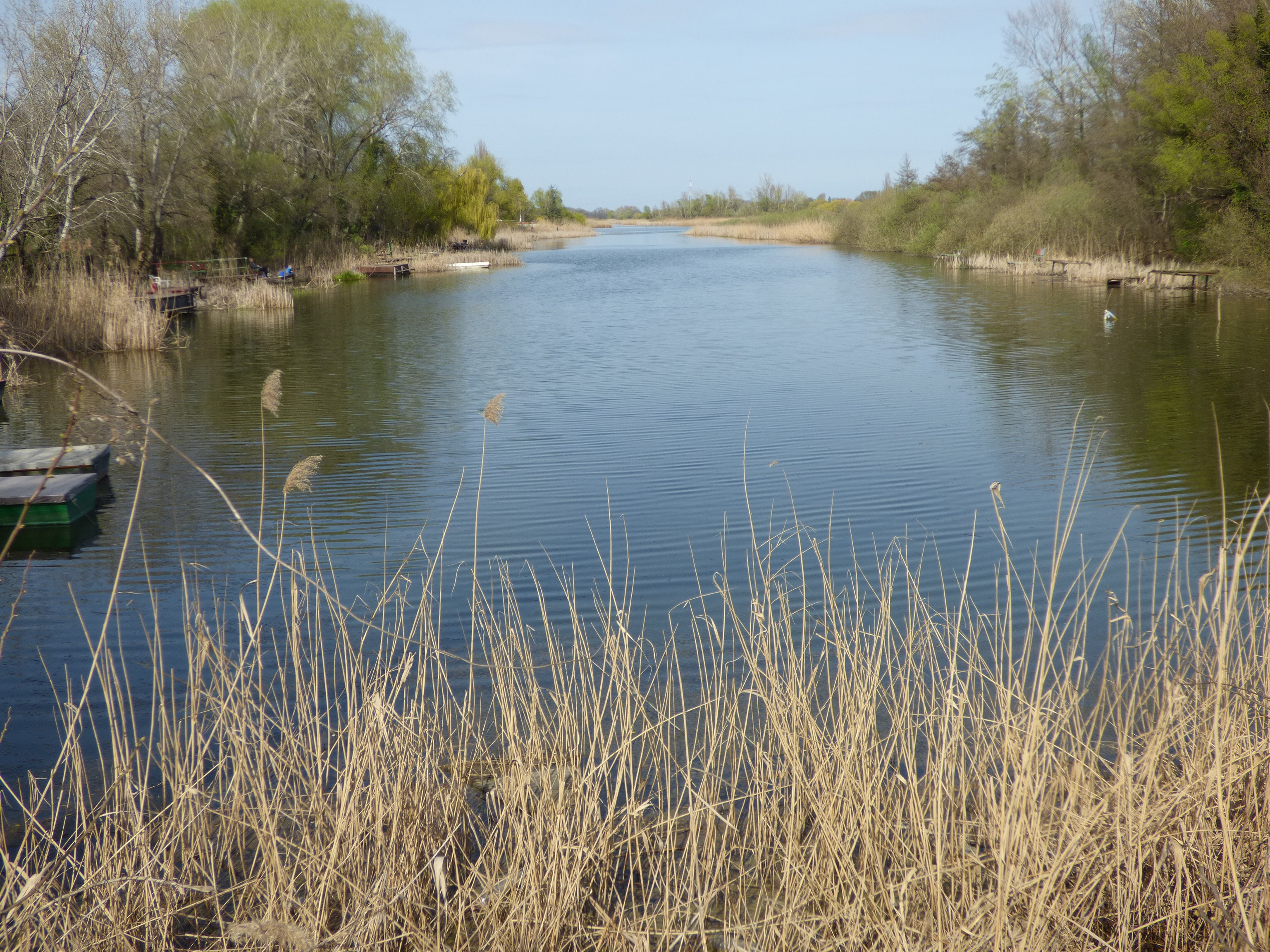 A Ráckevei-Duna holtága Szigetszentmiklósnál